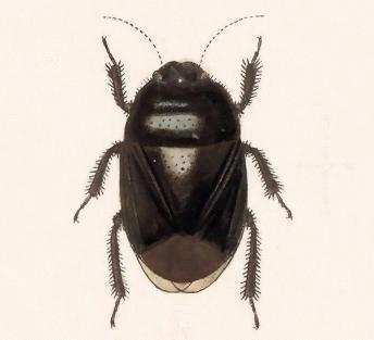 Biologia Centrali-Americana - Cyrtomenus teter Cut-out from original (Biologia Centrali-Americana (8271460259).jpg) shown below